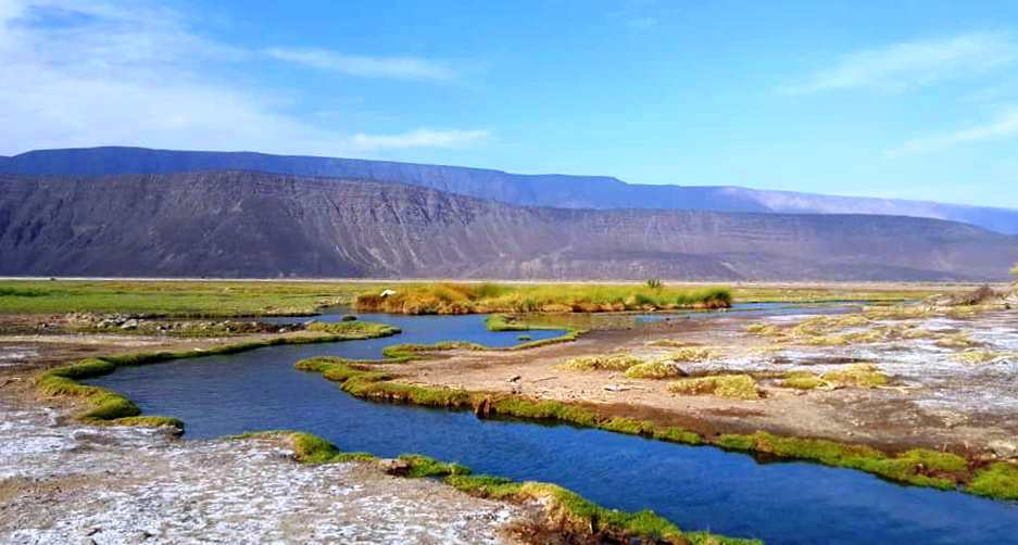 Landscape near Daoudaouga